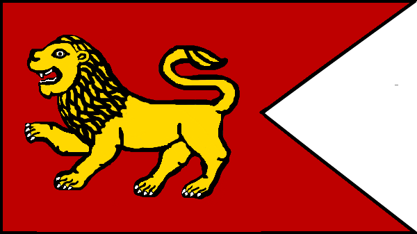 This picture shows the Simha flag of the Pallavas. The Simha emblem was especially preferred under the rule of Narasimhavarman.There is no official image of the Pallava flag. This picture should help to imagine and reconstruct the Pallava flag.